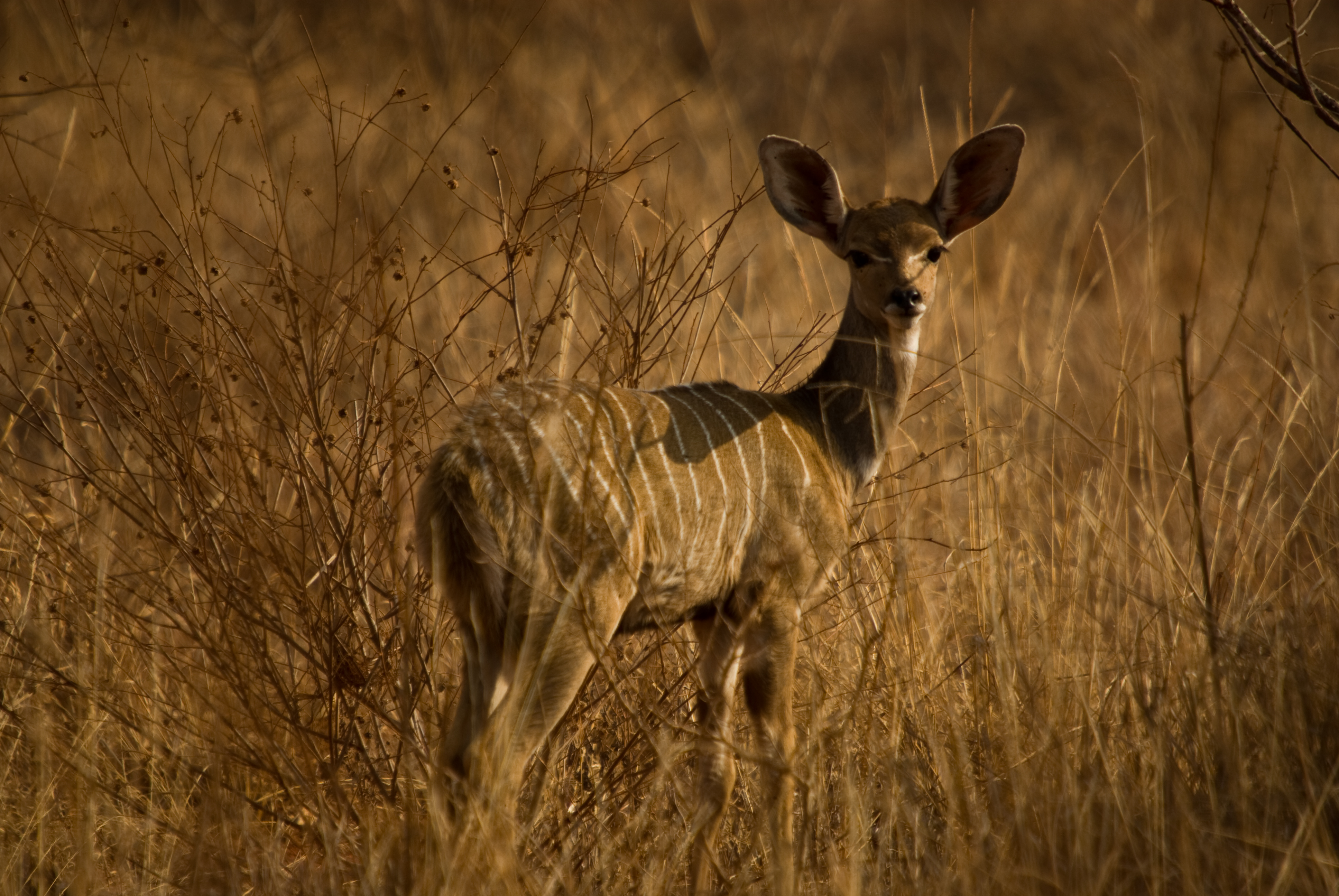 Picture taken in Kenya, in Tsavo west park.